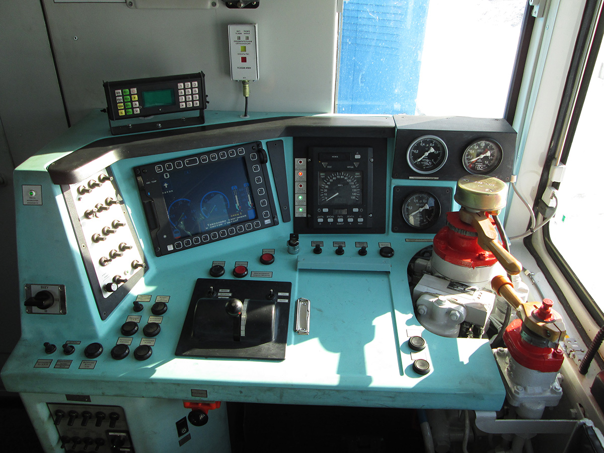 The control panel in the cabin of diesel locomotive TEM18-DM-3123 Kazakhstan, Karaganda region, depot